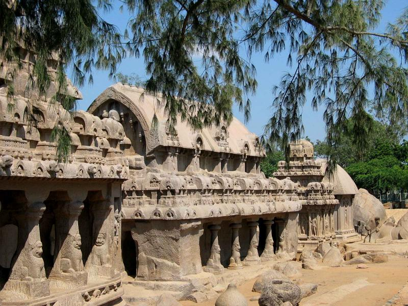 A view of the 'Five Rathas' at Mamallapuram. Photograph taken by Venu62